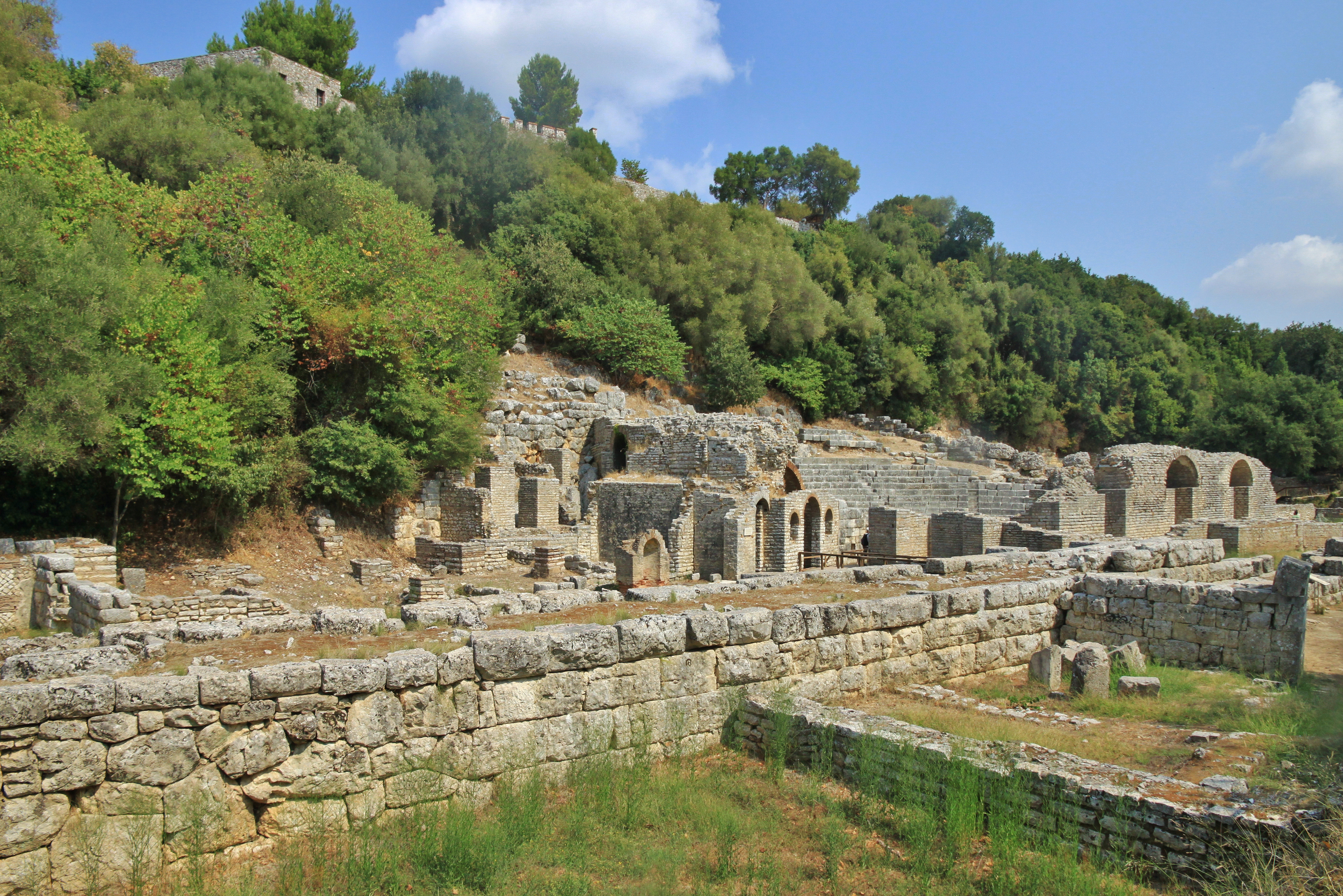 Agora: Prytaneion, Temple of Asclepius, and Theatre at Buthrotum, Vlorë County, Albania.